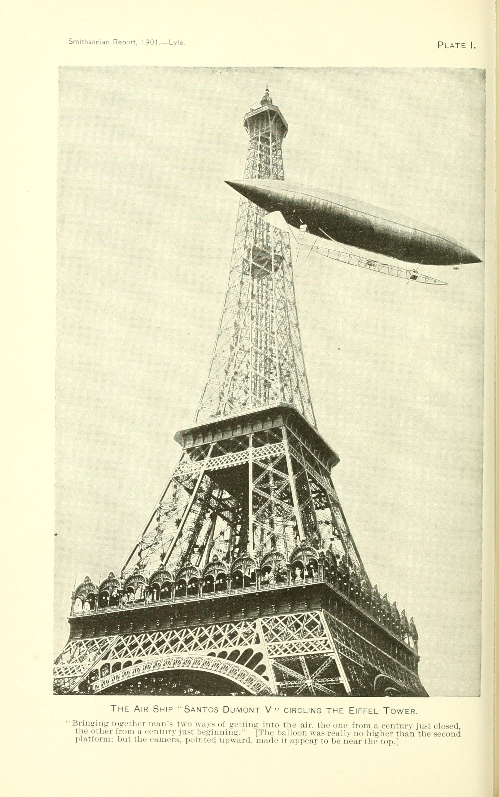 Title: Annual report of the Board of Regents of the Smithsonian Institution Year: 1846 (1840s) Authors: Smithsonian Institution. Board of Regents; United States National Museum. Report of the U. S. National Museum; Smithsonian Institution. Report of the Secretary Subjects: Smithsonian Institution; Smithsonian Institution. Archives; Discoveries in science Publisher: Washington : Smithsonian Institution Text Appearing Before Image: Smithsonian Report, 1901.—Lyle. Plate I. Text Appearing After Image: The Air Ship " Santos-Dumont V" circling the Eiffel Tower. "Bringing together man's two ways of getting into the air. the one from a century just closed the other from a century just beginning." [The balloon was reallvno higher than the second platform; but the camera, pointed upward, made it appear to be near the top.]